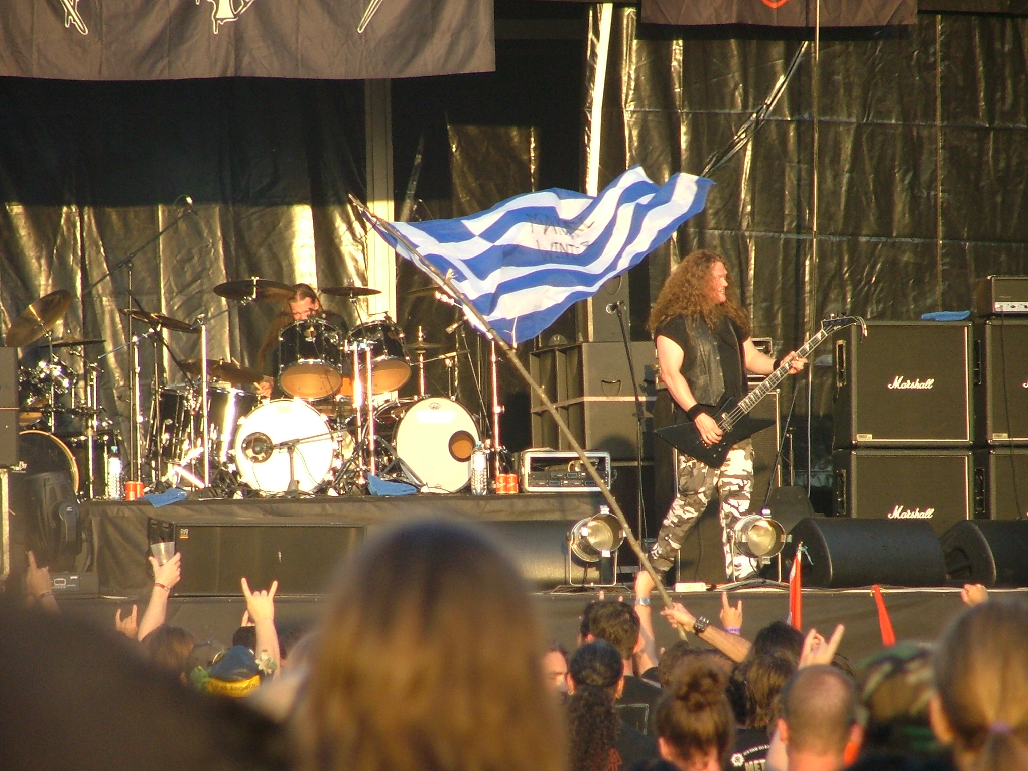 Swedish death metal band Unleashed at the Metalcamp in Tolmin